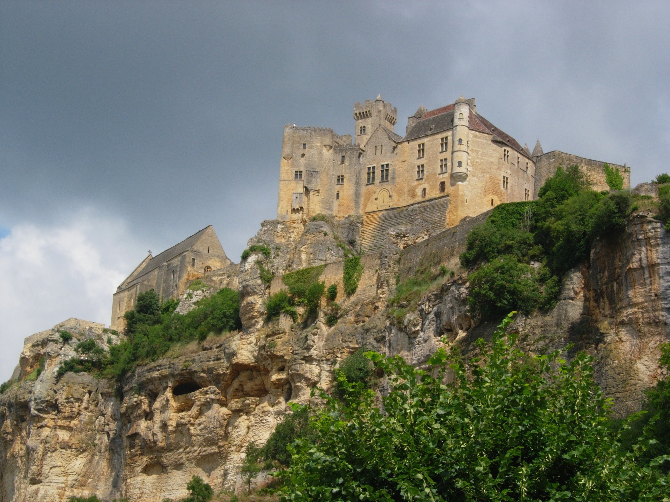 Castel Beynac Dordogne in Perigord France.